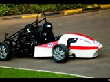 car image